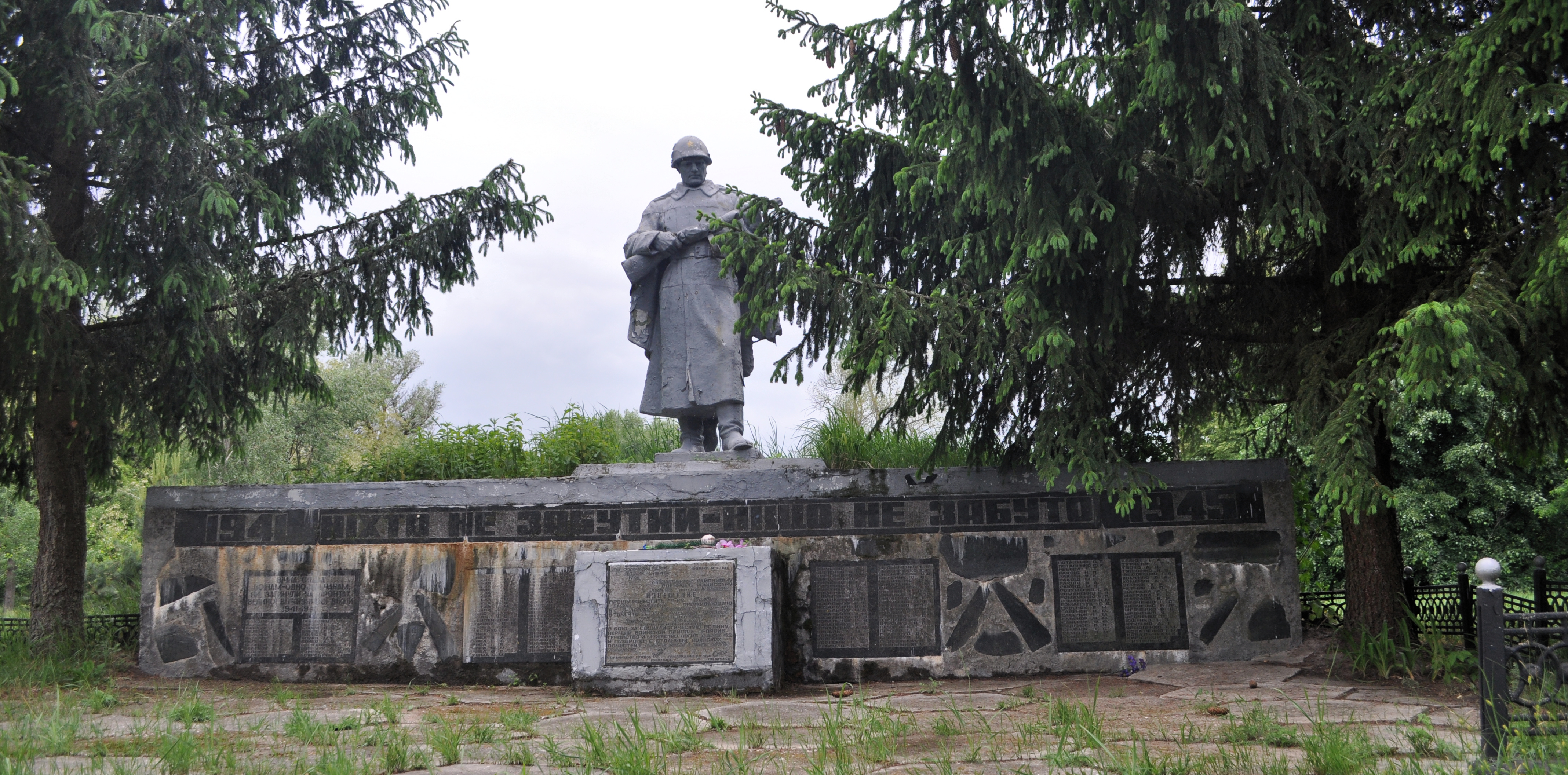 Monument in Korogod